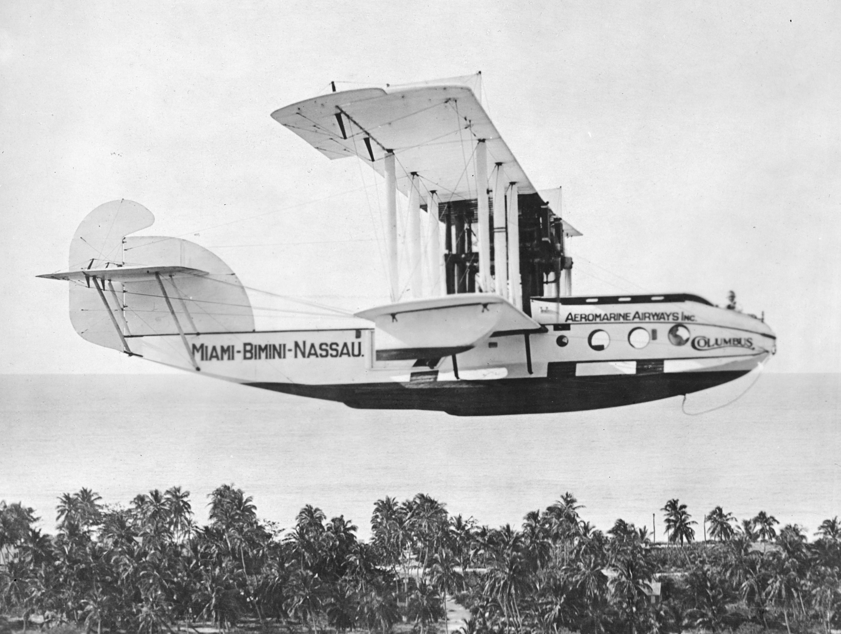 The Aeromarine 75 flying boat Columbus of Aeromarine Airways in flight over Bimini in the Bahamas. The Aeromarine 75 was a civil passenger conversion of the Felixstowe F5L, a maritime patrol aircraft of the First World War.